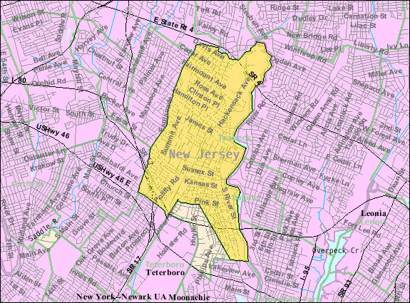 U.S. Census Bureau map of Hackensack